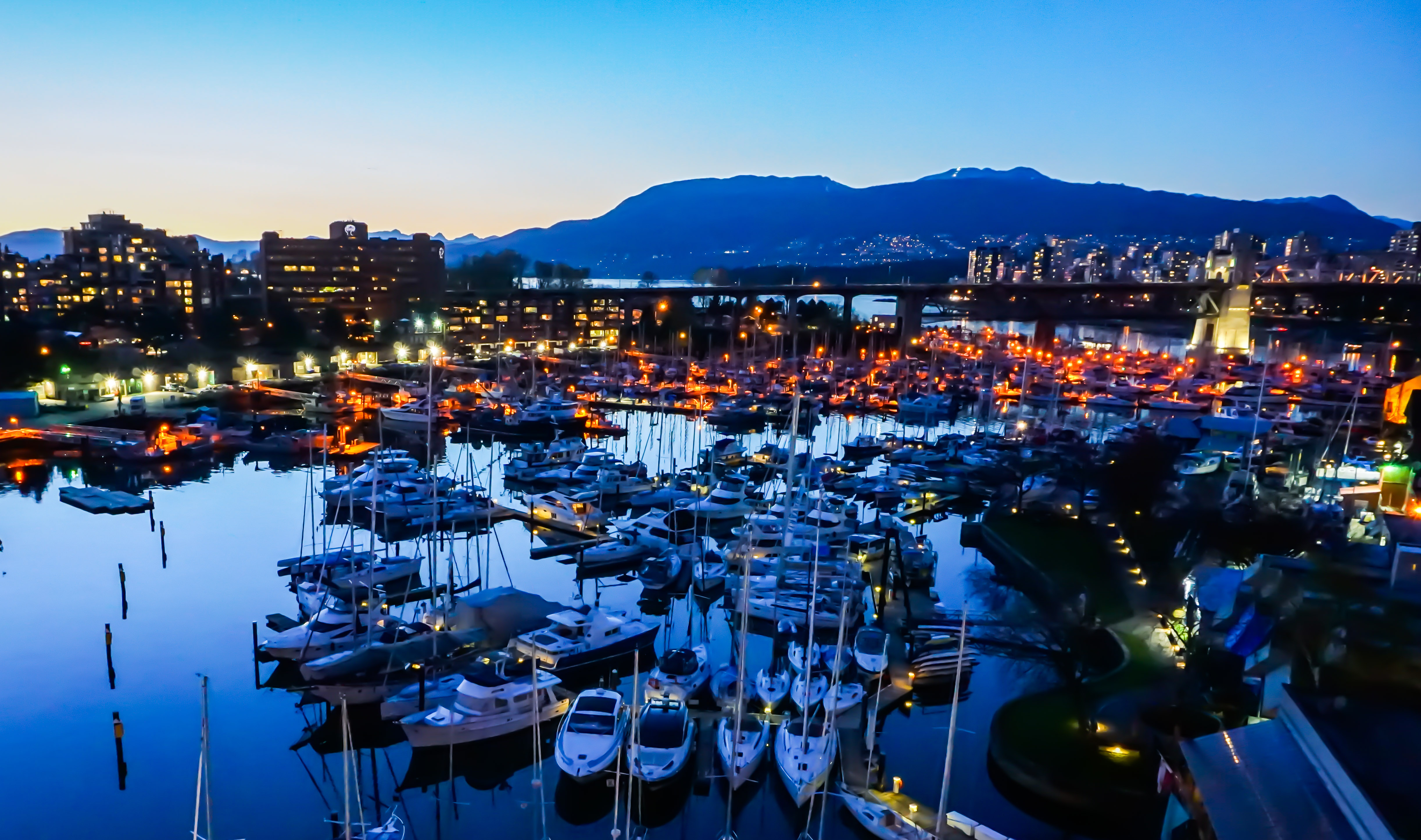 English Bay Vancouver